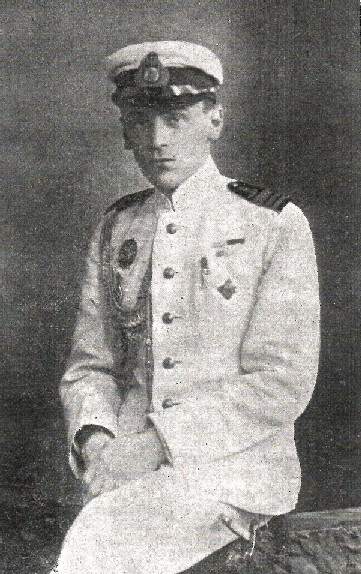 Photo of rear admiral UPR of S.A.Shramchenko